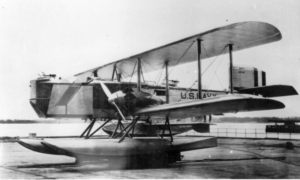 Photo of U.S. Navy XTN-1 prototype.jpg